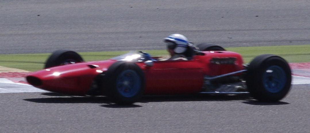 John Surtees demonstrating his 1964 championship-winning Ferrari 158 during the 2010 Bahrain Grand Prix meeting.